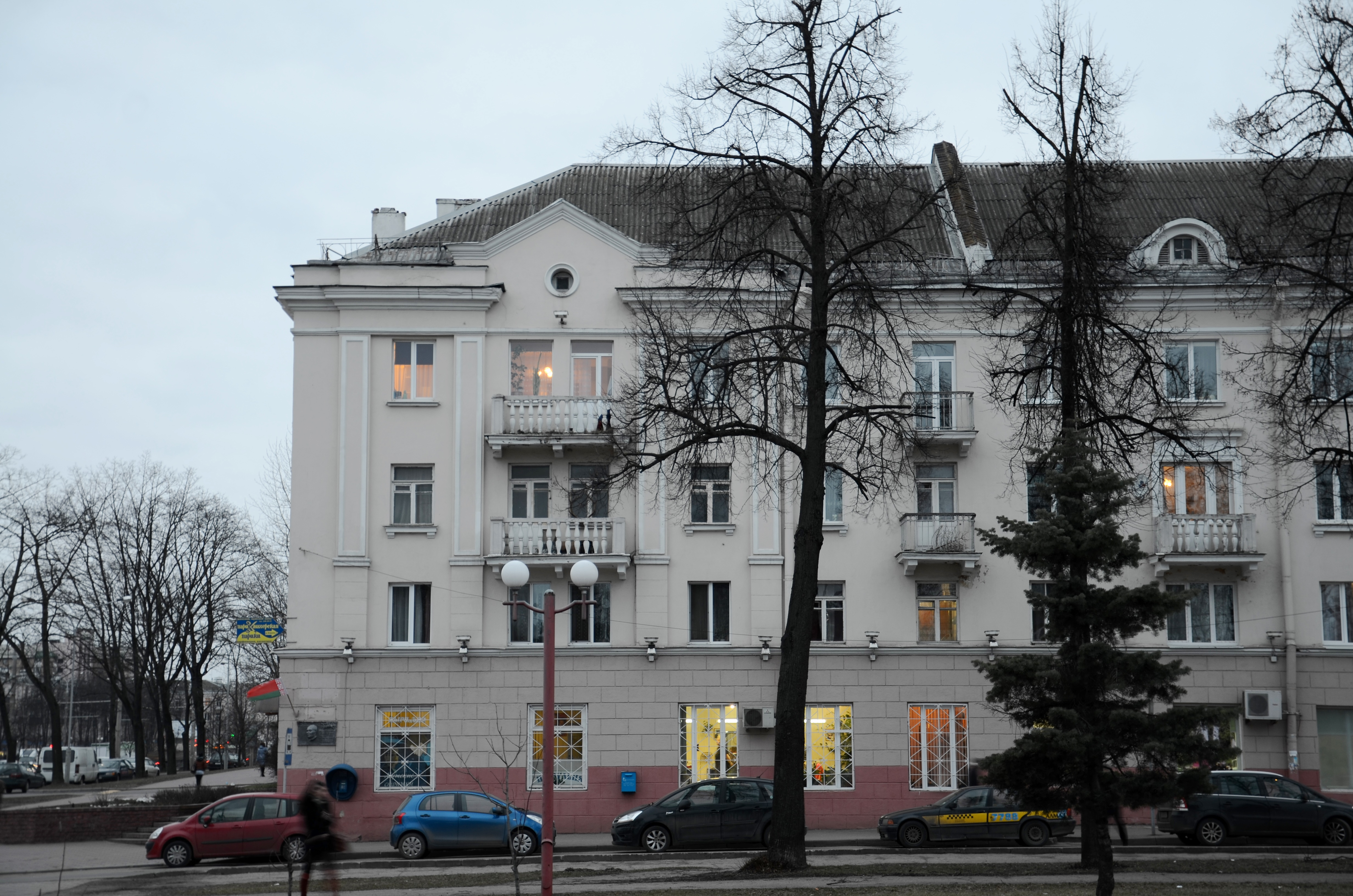 Kotovsky Street and Partizansky Avenue intersection Minsk